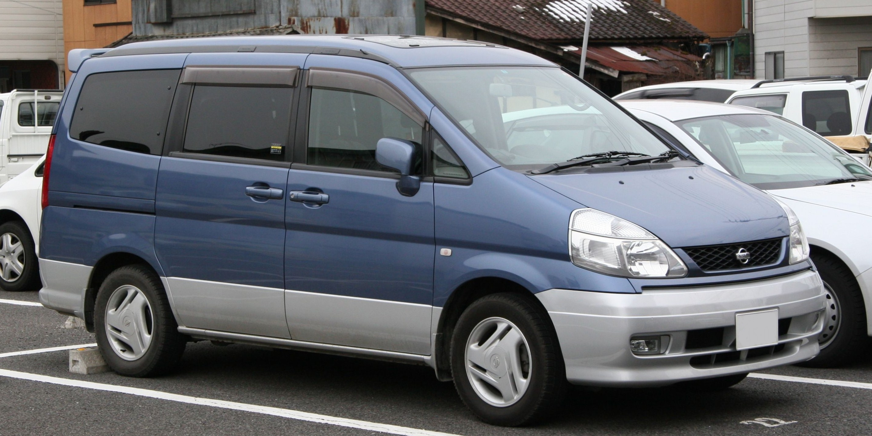 Nissan Serena